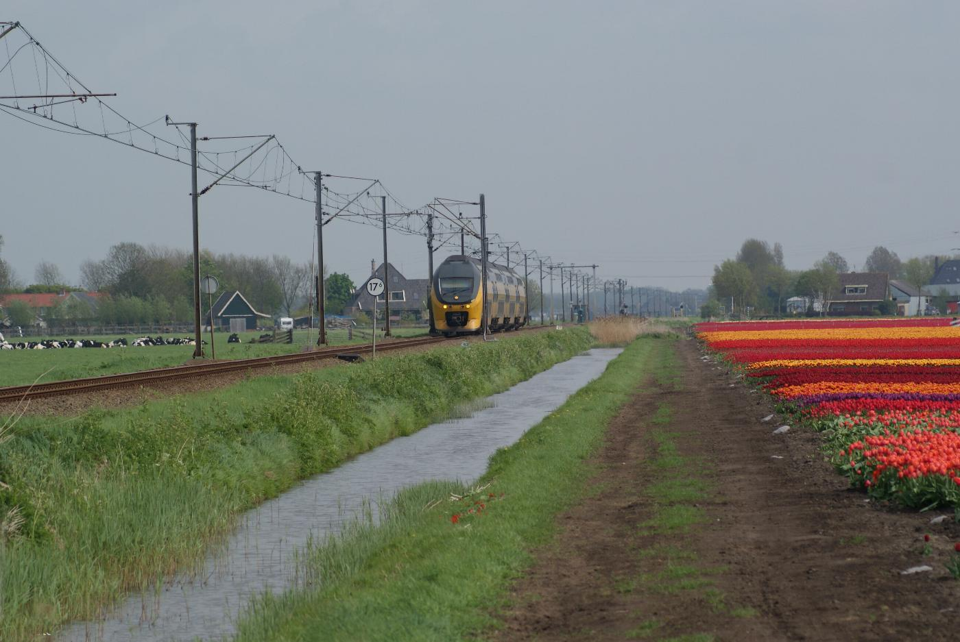 Fields, tulips and train in Zuidermeer, Holland